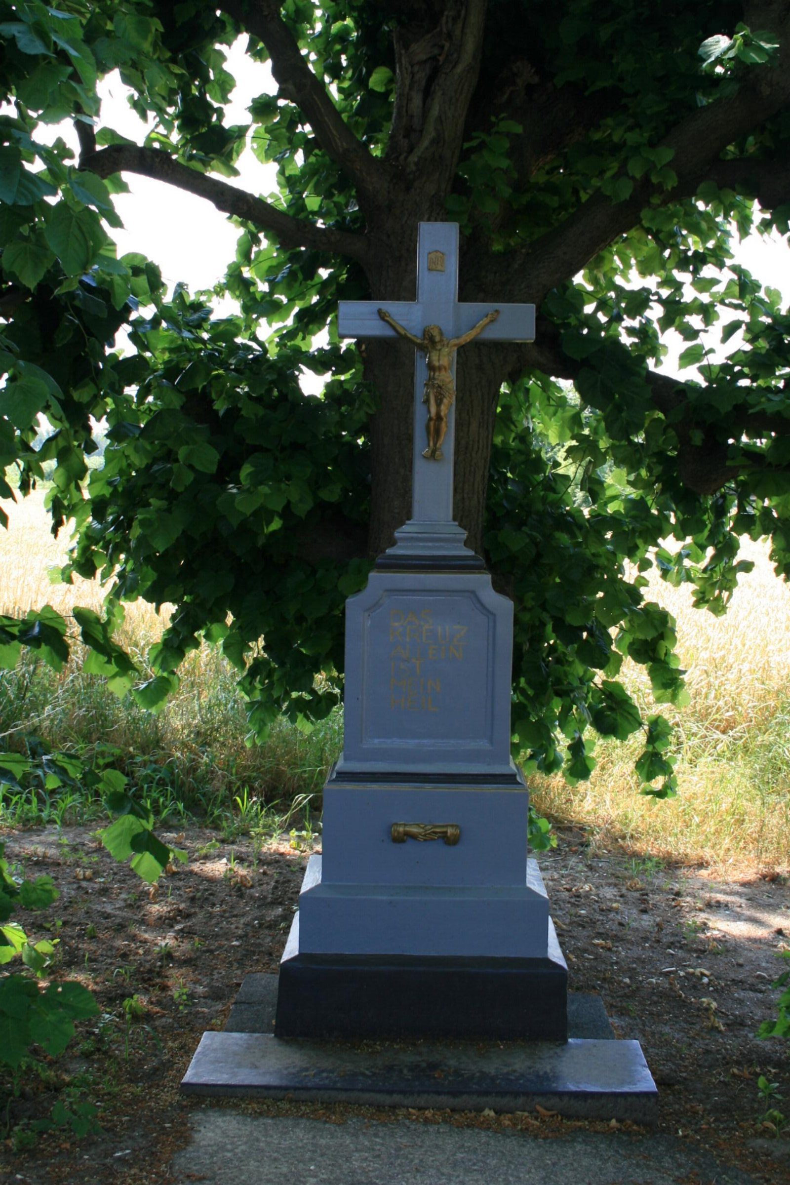 Cultural heritage monument No. H 091 in Mönchengladbach